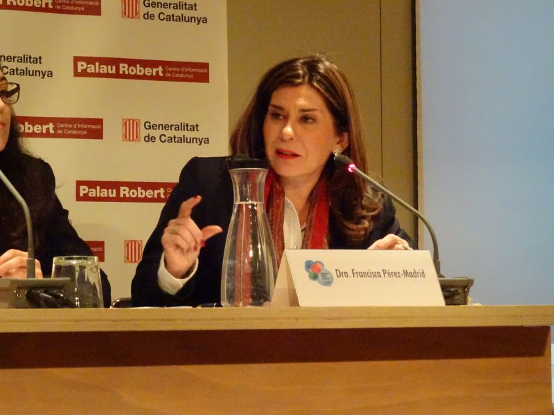 FranciscaPM1500218